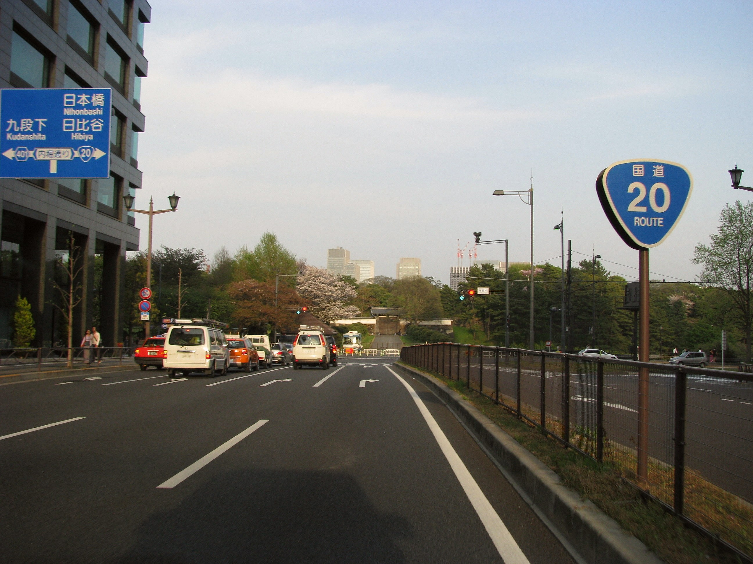 The Japan National Route 20. This located is front of Hanzōmon in Kōjimachi, Chiyoda, Tokyo, Japan.